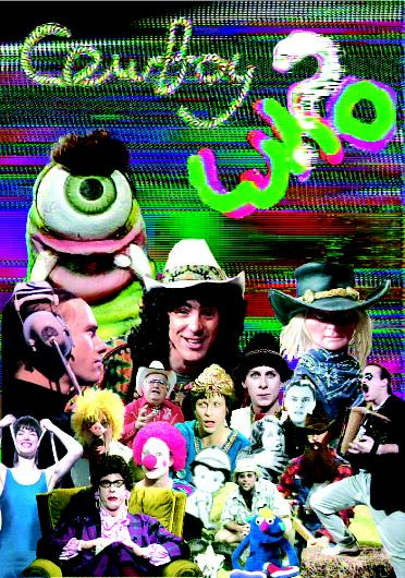 Cast of characters from first season of “Cowboy Who?” television series.